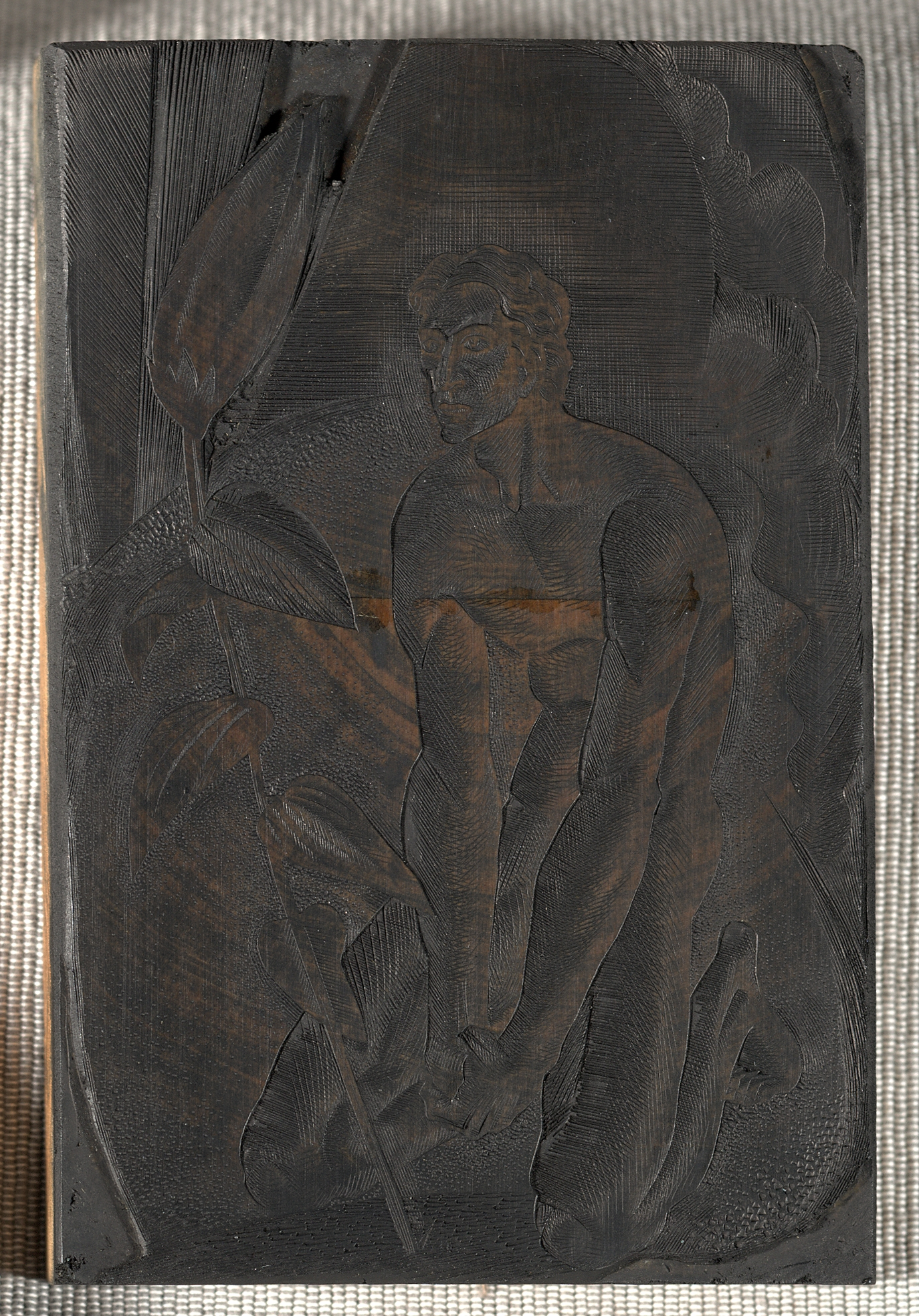 A wood block engraved by American illustrator Lynd Ward (1905-1985) for plate #29 of his novel without text "Prelude to a Million Years"